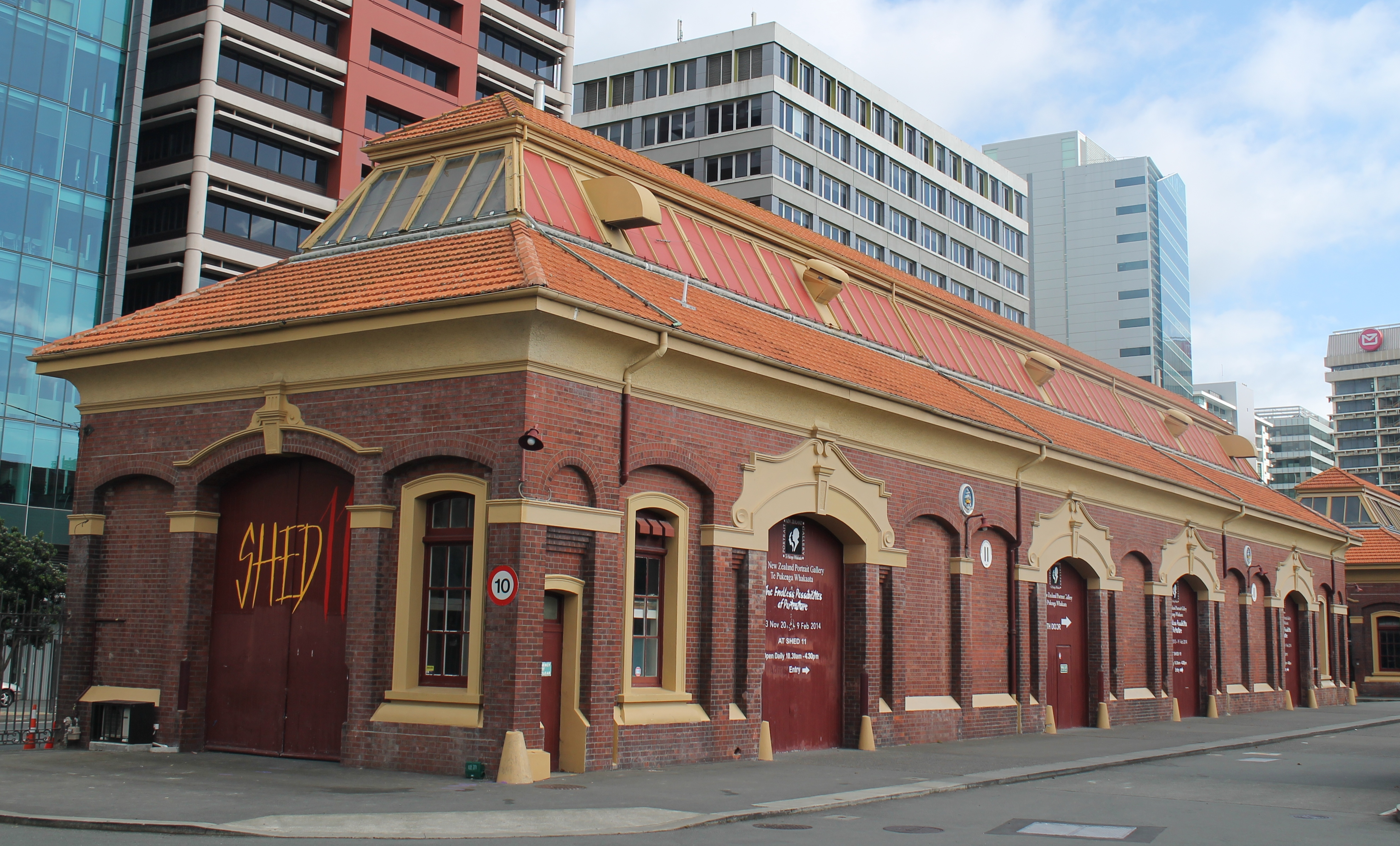 One of several iconic warehouses still in use on the waterfront.